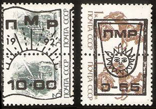 Cinderella (bogus) stamps made by overprinting stamps of the Soviet Union as if they were issued by Transnistria